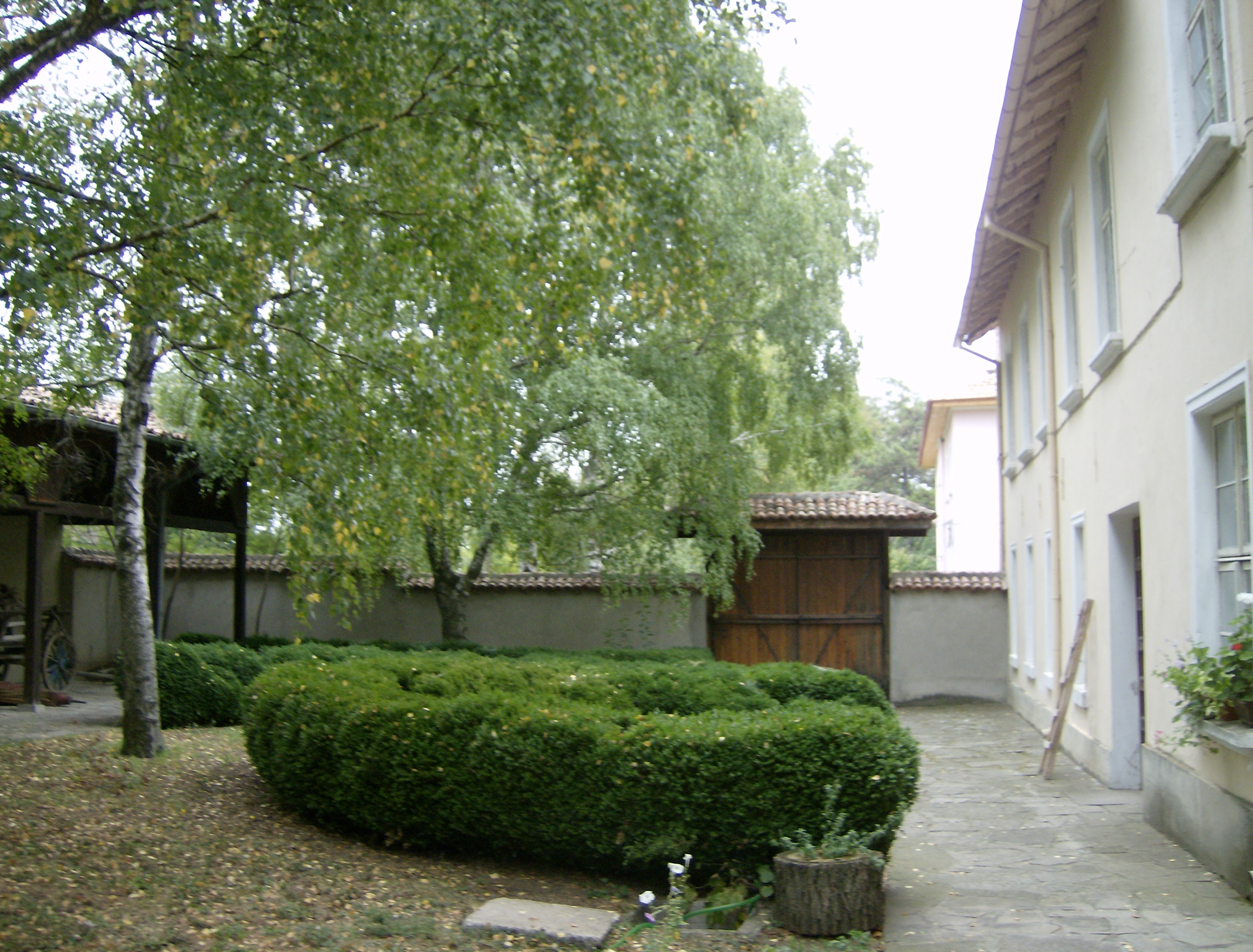 Horse museum Kabiuk